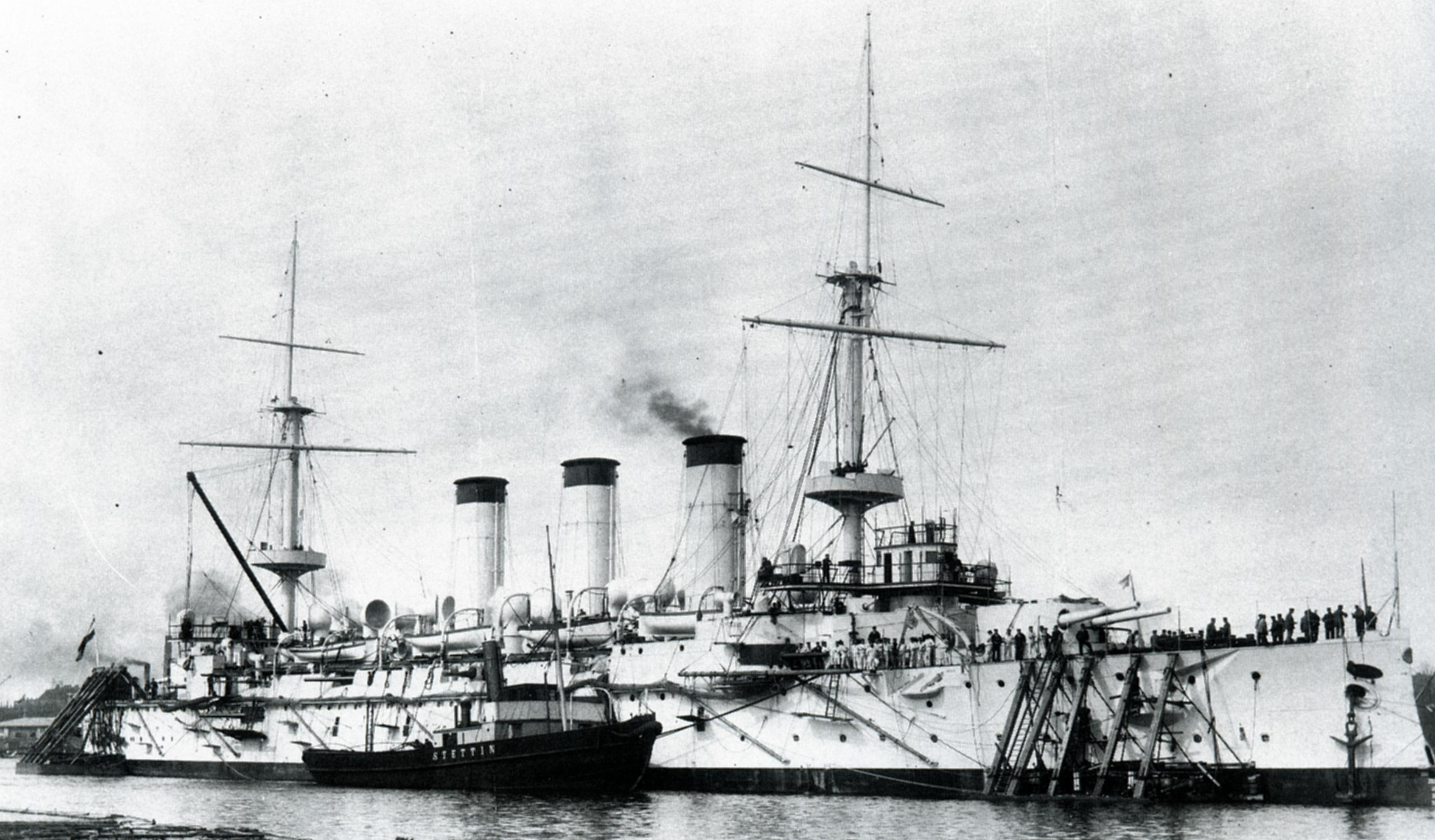 IJN Yakumo on completion